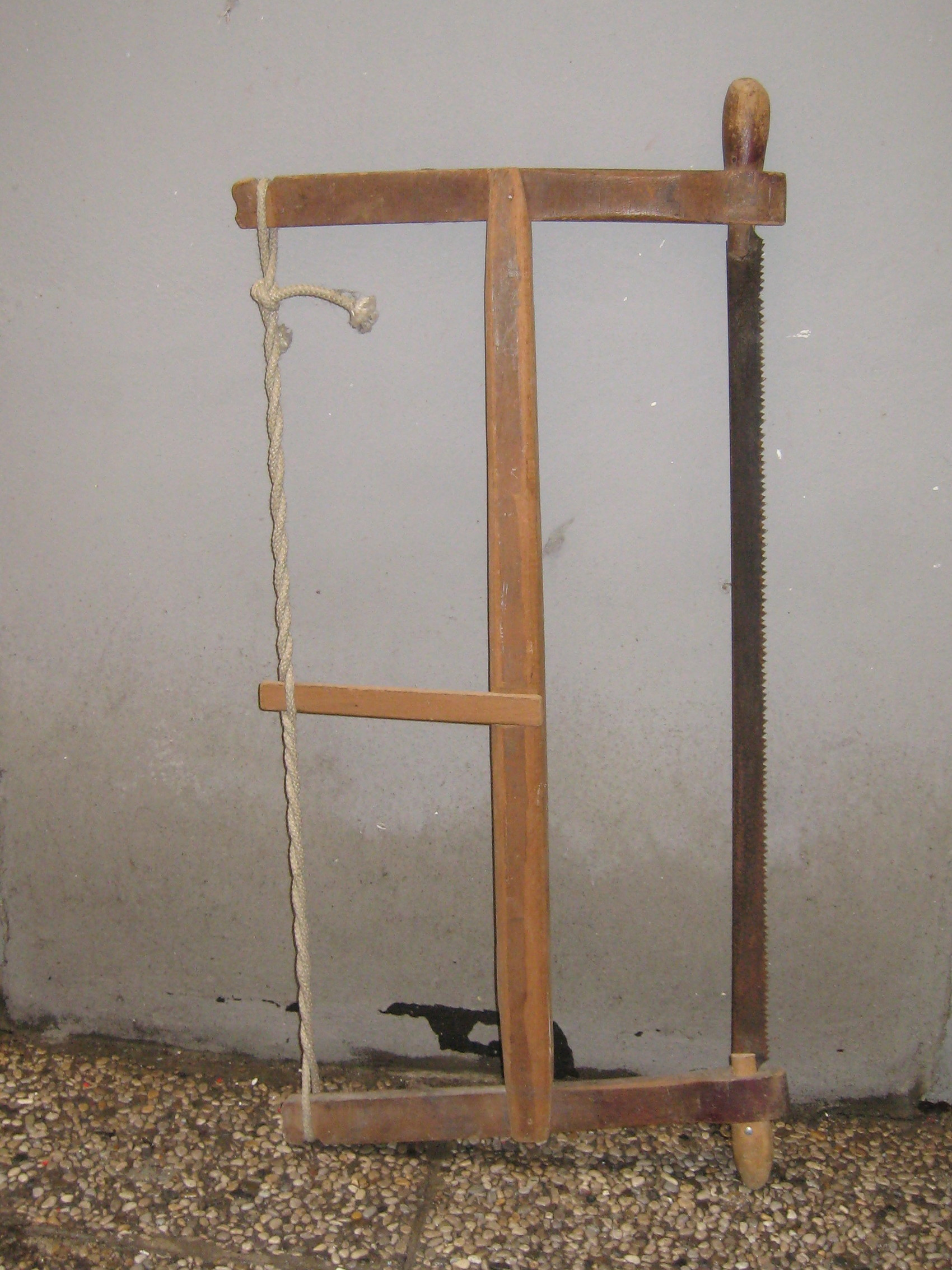 Saw